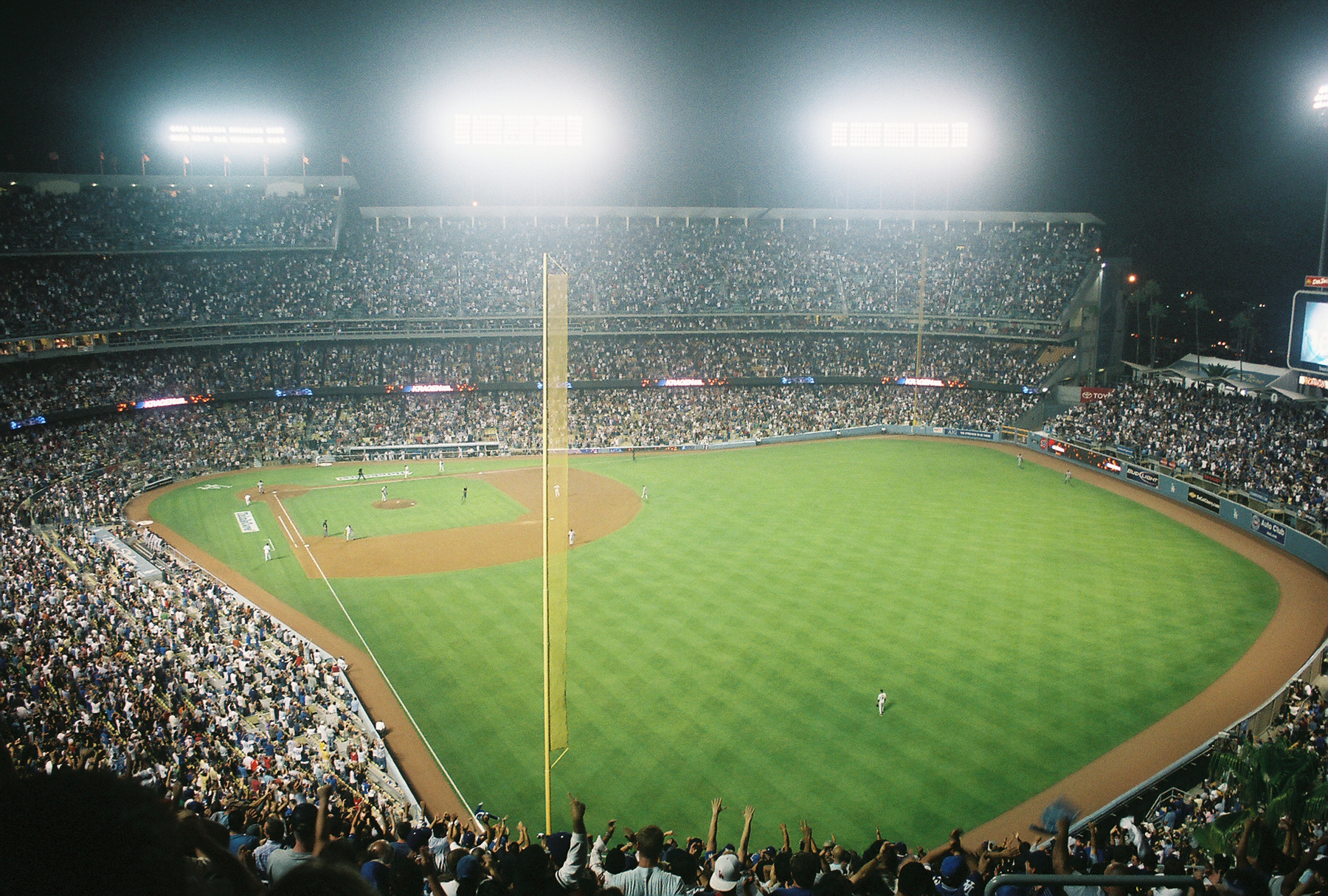 Dodger Stadium during the Dodgers-Giants game on August 1, 2007. In this image, Nomar Garciaparra is rounding the bases after hitting a 2-run tiebreaking home run off the Giants' Randy Messenger.